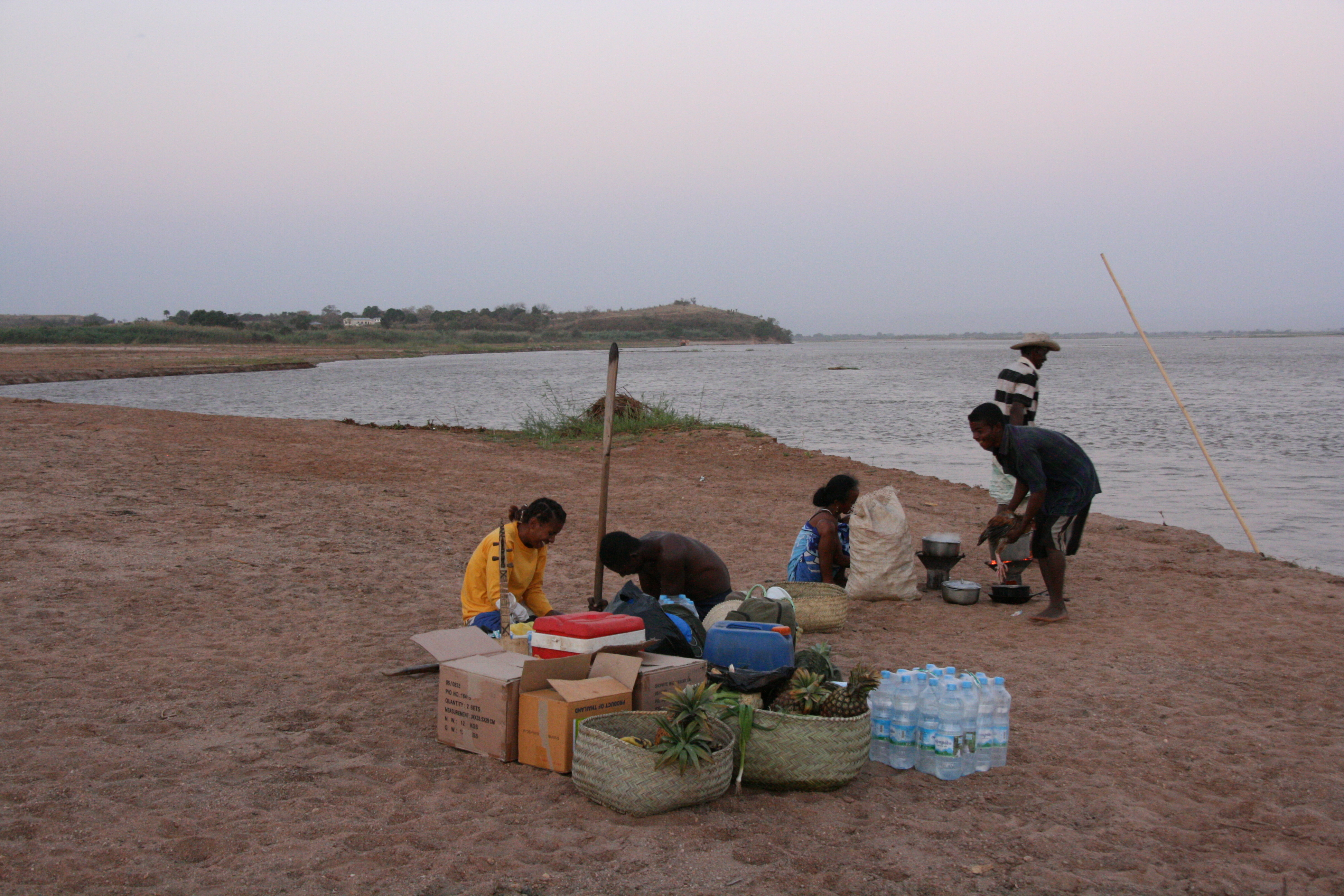 Bodo and the oarsman are also great cooks Tsiribinha River - Madagascar